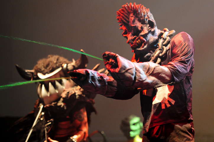 No Sleep Til Festival 2010